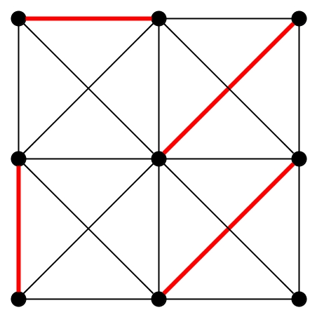 Maximum matching which is not perfect.